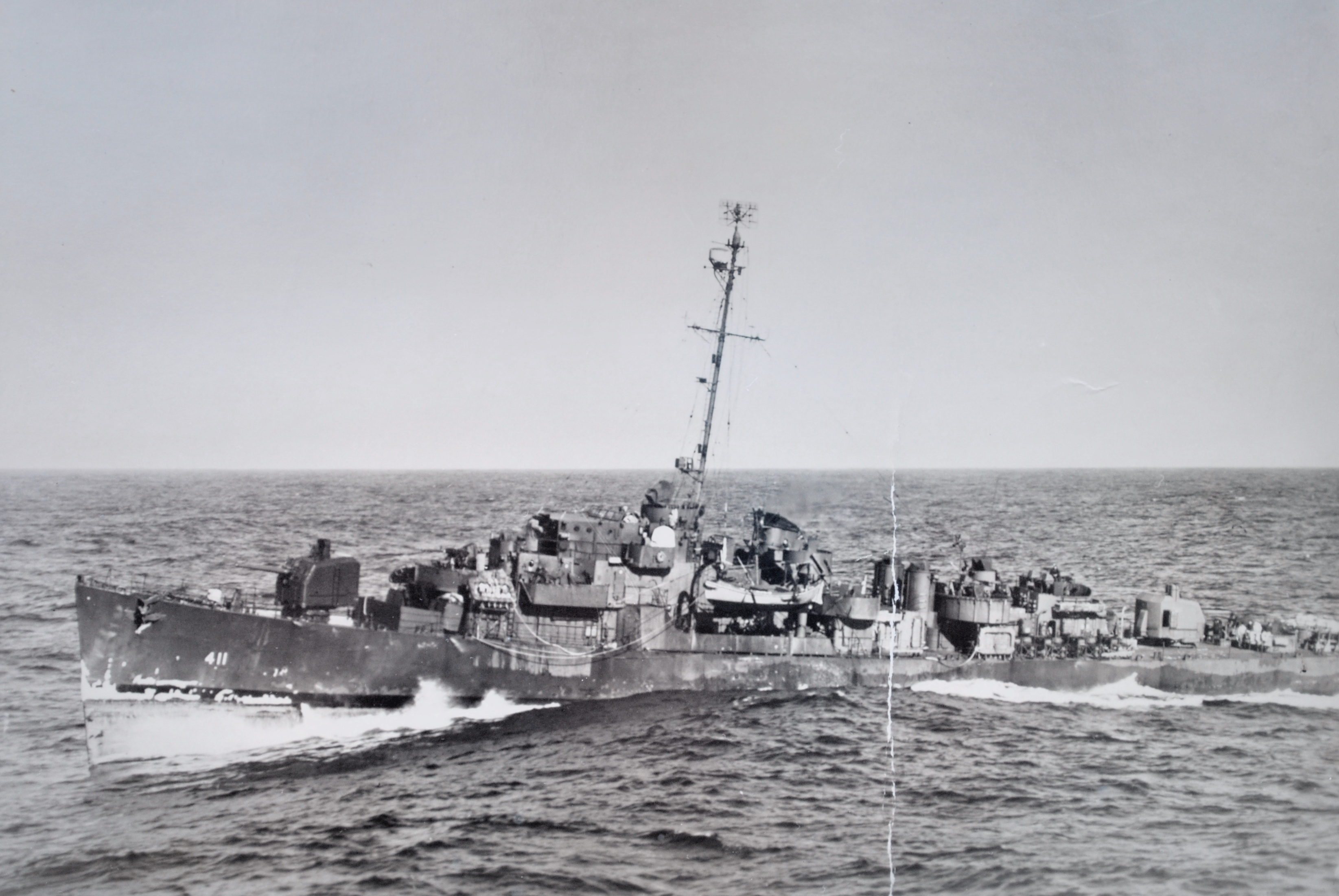 View of USS Stafford (DE-411).